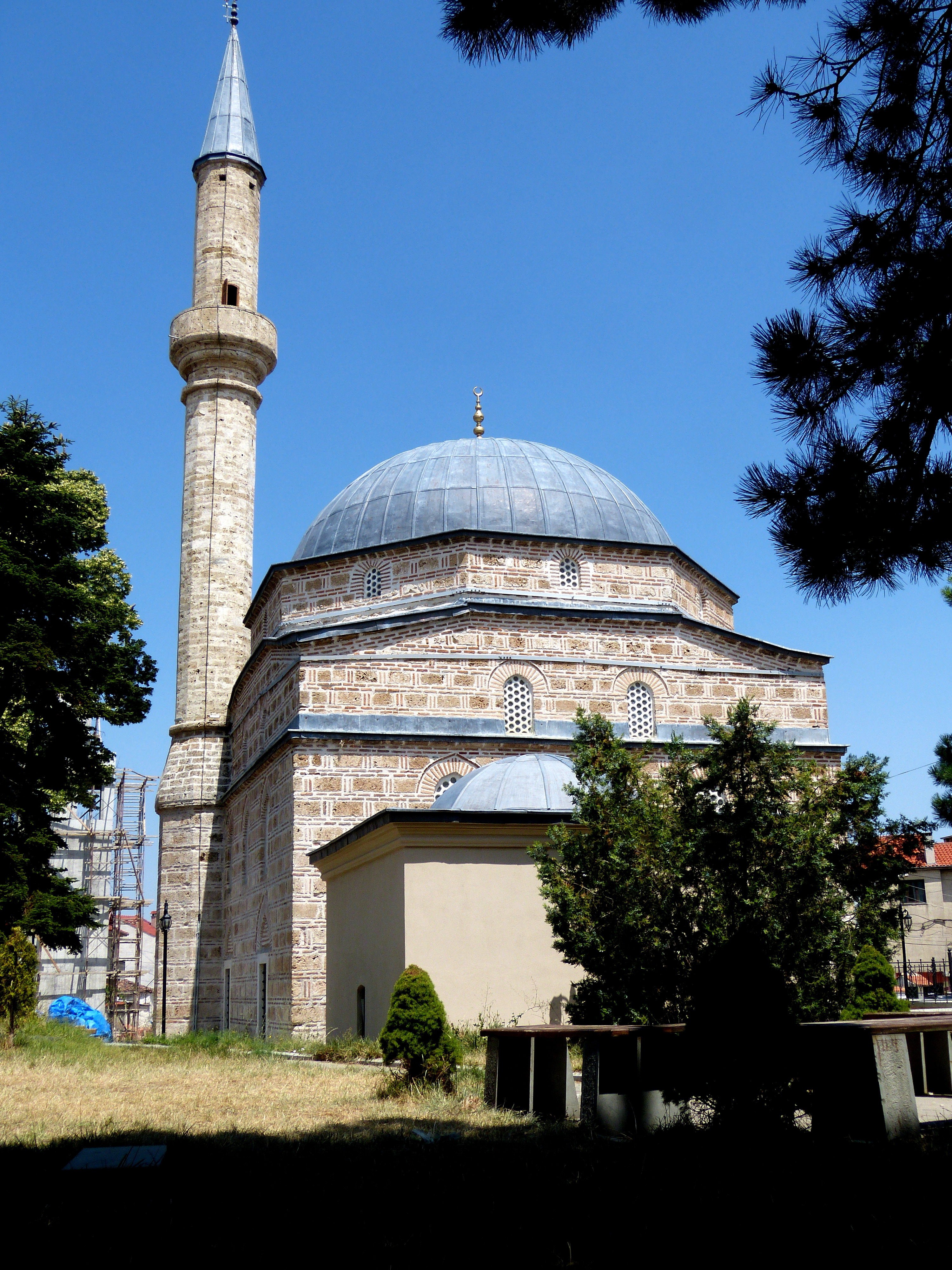 Korçë ( Albania ). Mirahor mosque ( 1496 )